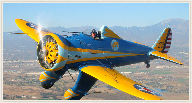 POF Peashooter